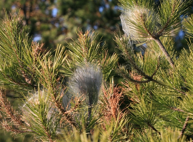 nest of "chenille processionnaires" on a pine tree in the "Grand" (tall) Luberon (84), France.